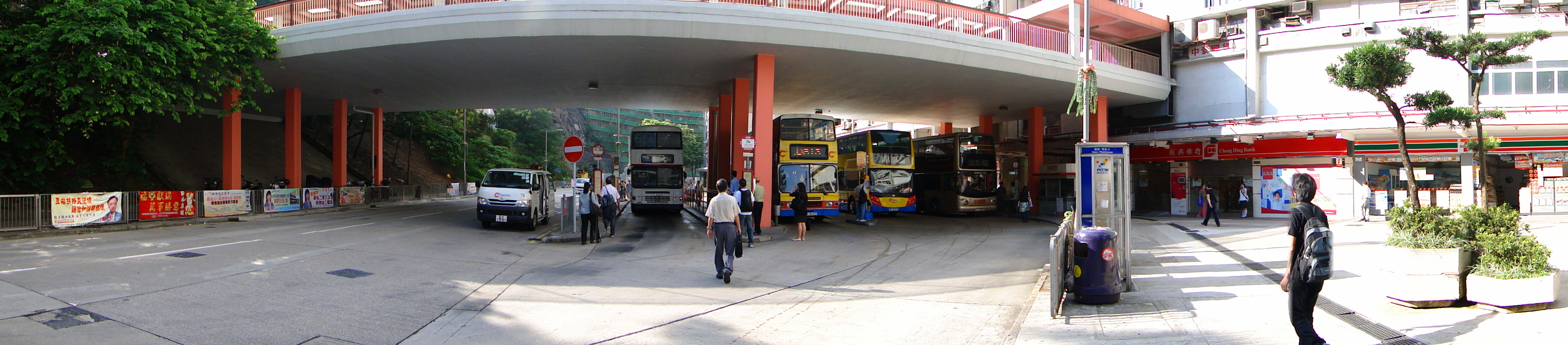 Shun Lee Bus Terminus, Hong Kong.